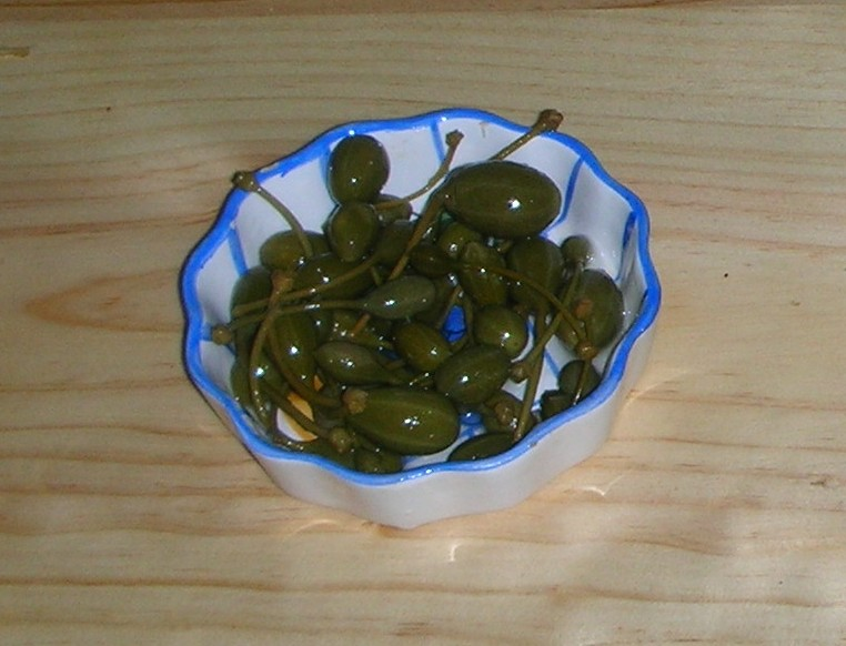 pickled caper fruits